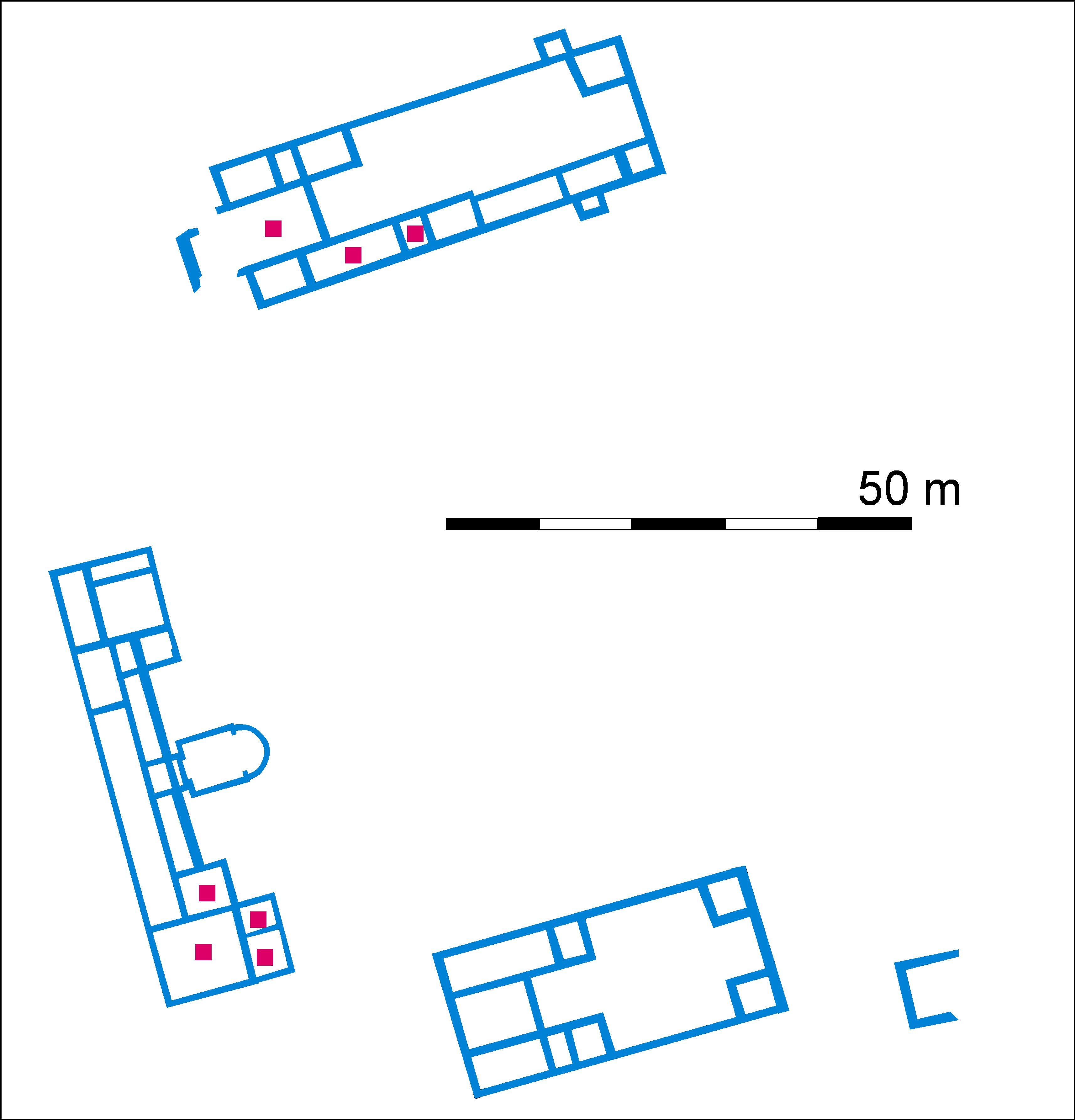 Roman Villa of Winterton, United Kingdom, plan of the villa complex around AD 350. Rooms with mosaics are marked red